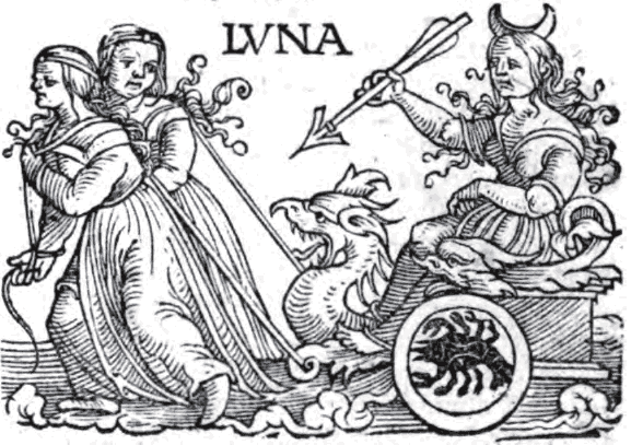 The Moon, from Guido Bonatti Liber Astronomiae